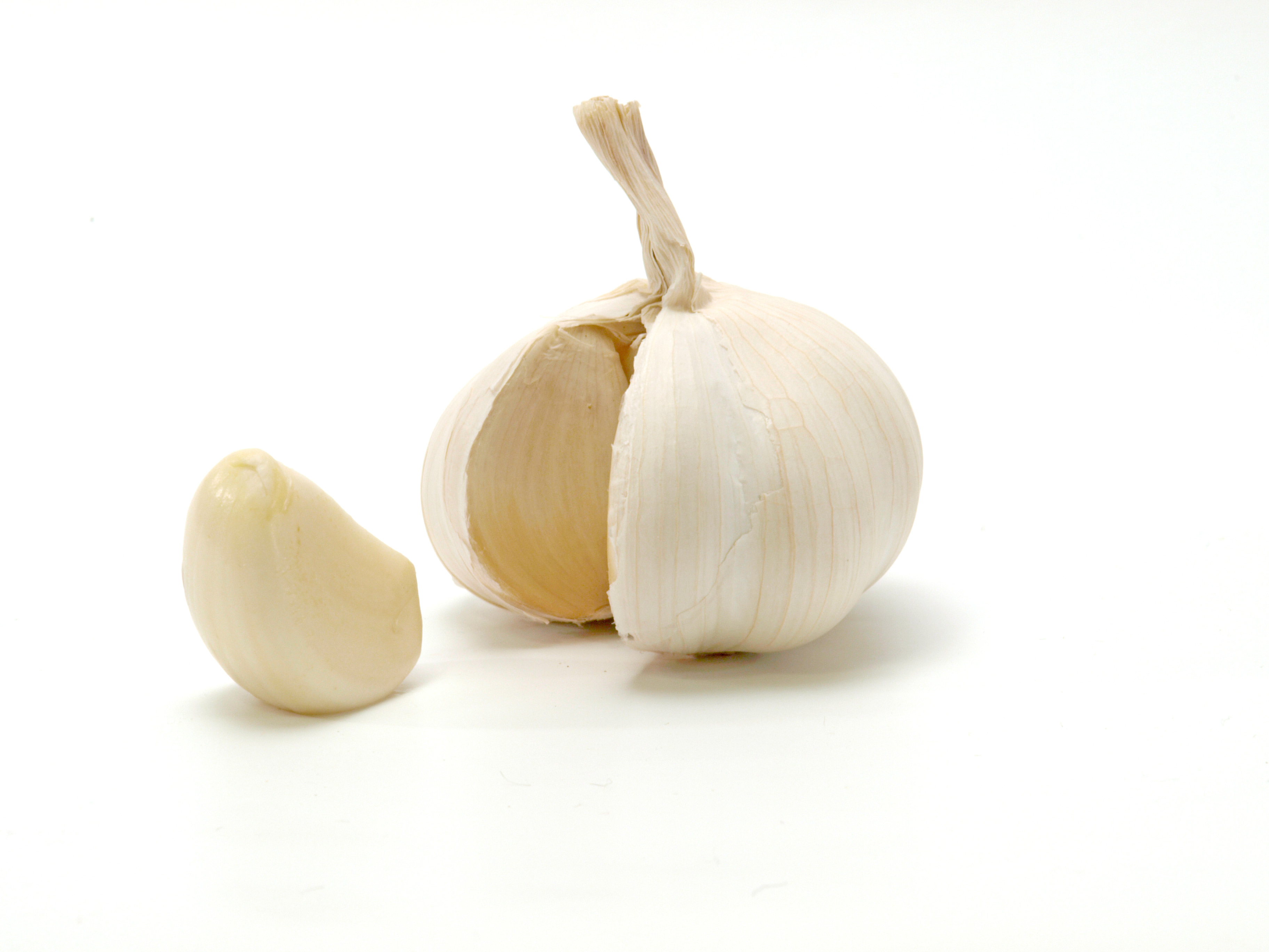 A bulb of garlic has been opened and a peeled clove of garlic sits next to it.